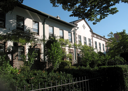 Looking South along 36th Street at Norwood Gardens terrace homes designed by Walter Hopkins of Warren & Wetmore.